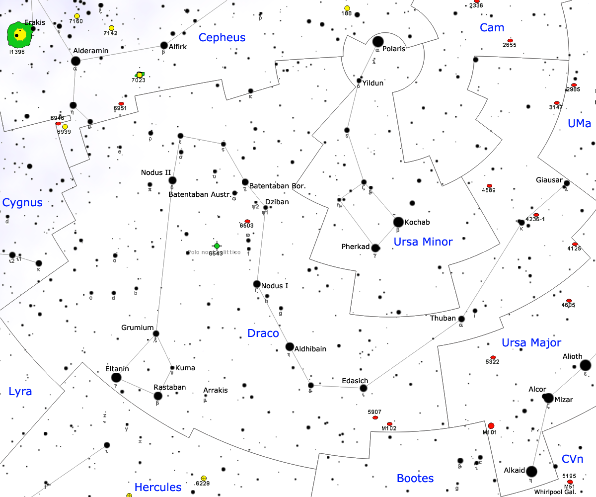 Map of Draco